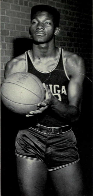 Photograph of M. C. Burton